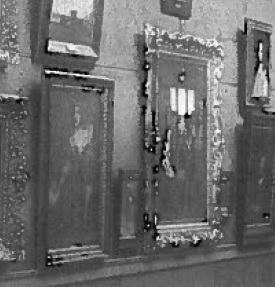 Photograph of Rogier van der Weyden's Saint Luke Drawing the Virgin at the Old Master's Gallery, Lowell building, Museum of Fine Arts, Boston. Crop of a larger photograph